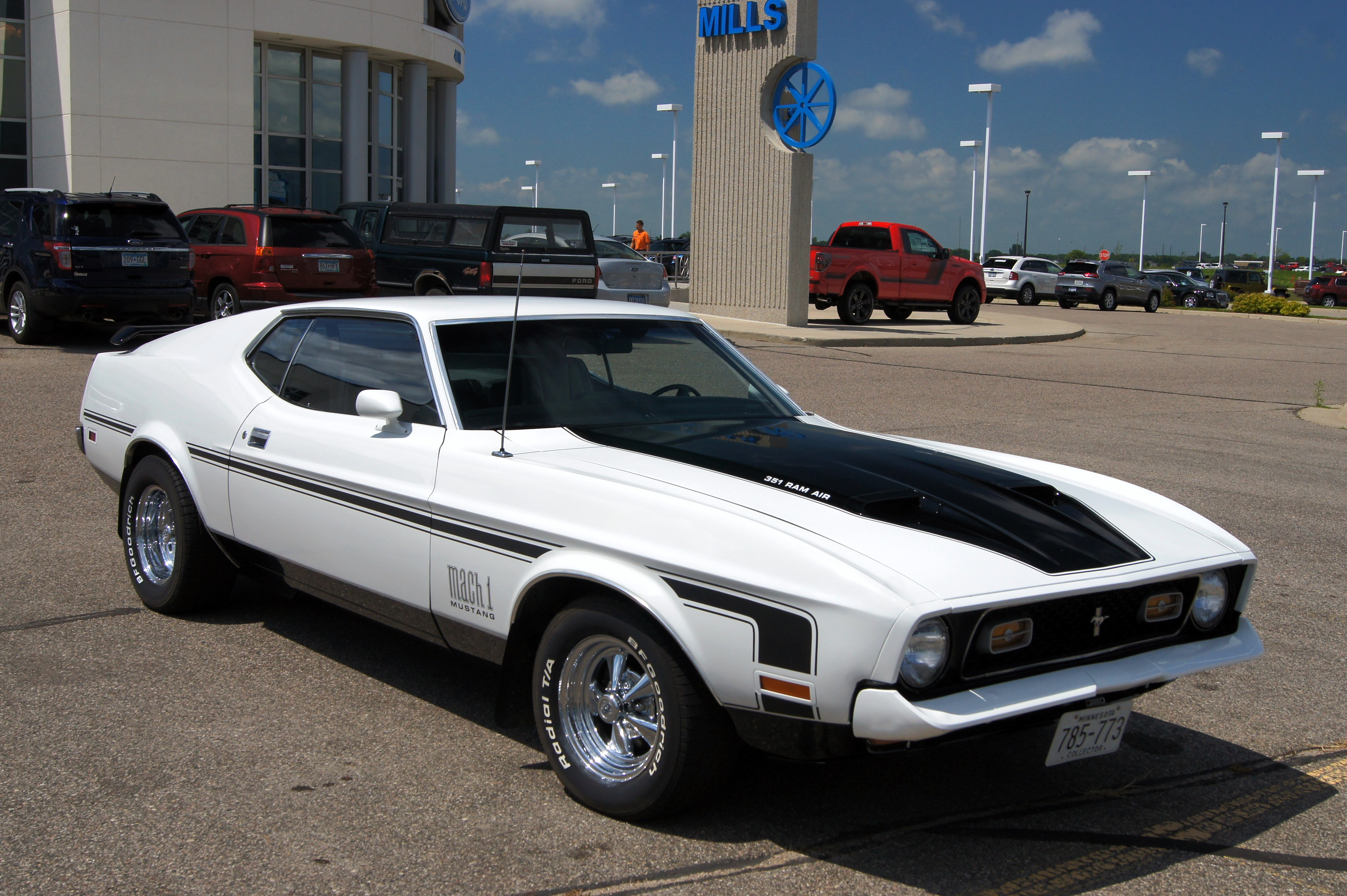 Ford Mustang 50th Anniversary Event Mills Ford Willmar Minnesota